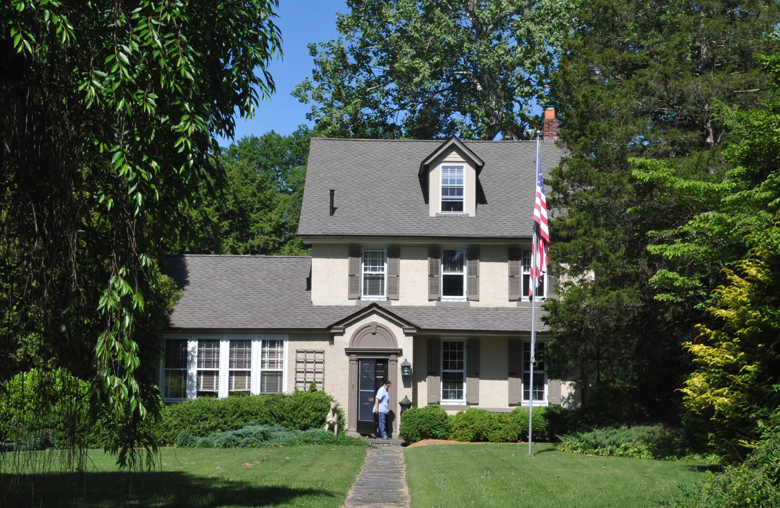 100 S. WEST, AVENUE, WENONAH; THIS INN WAS BUILT CA. 1773 BY SAMUEL MOFFETT. DURING THE REVOLUTION "STONE HOUSE" WAS USED BY PATRIOTS AS A MEETING PLACE. IN LATER YEARS IT BECAME KNOWN AS THE BALLINGER HOUSE.